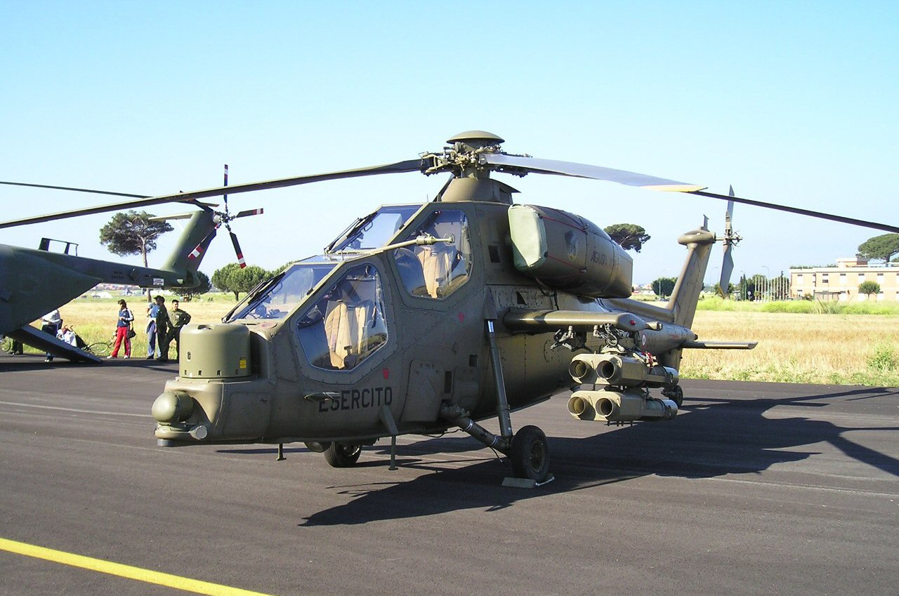 Photo of the Agusta A129 Mangusta helicopter. Photo taken in Pratica di Mare airport, Rome (Italy) during the F104 Starfighter World Meeting. Dimensions length 14.29 m height 3.35 m diameter main rotor 11.90 m Powerplant two Rolls-Royce Gem 2-1004D turboshaft engines maximum cruise speed 278 km/h vertical rate of climb 5.4 m/s